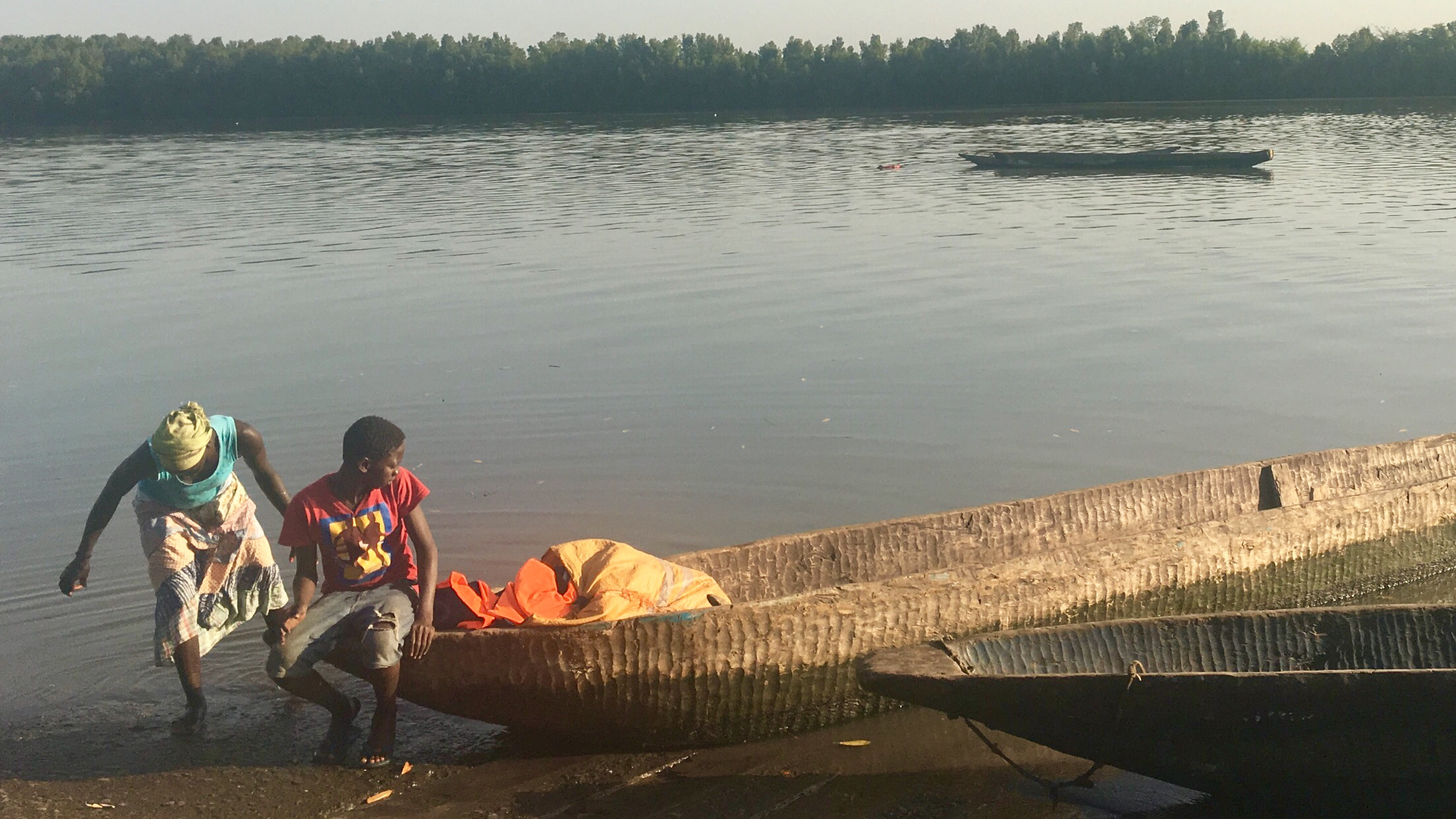 This is an image with the theme "Africa on the Move or Transport" from: Guinea-Bissau